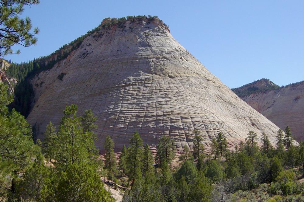 Checkerboard Mesa in Zion National Park.